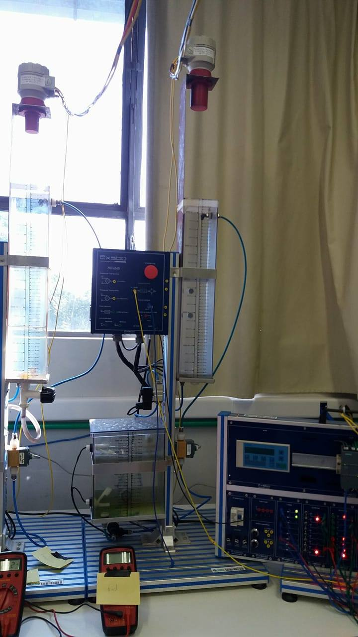 Sensor de Nível- Sensor da Universidade de Lavras